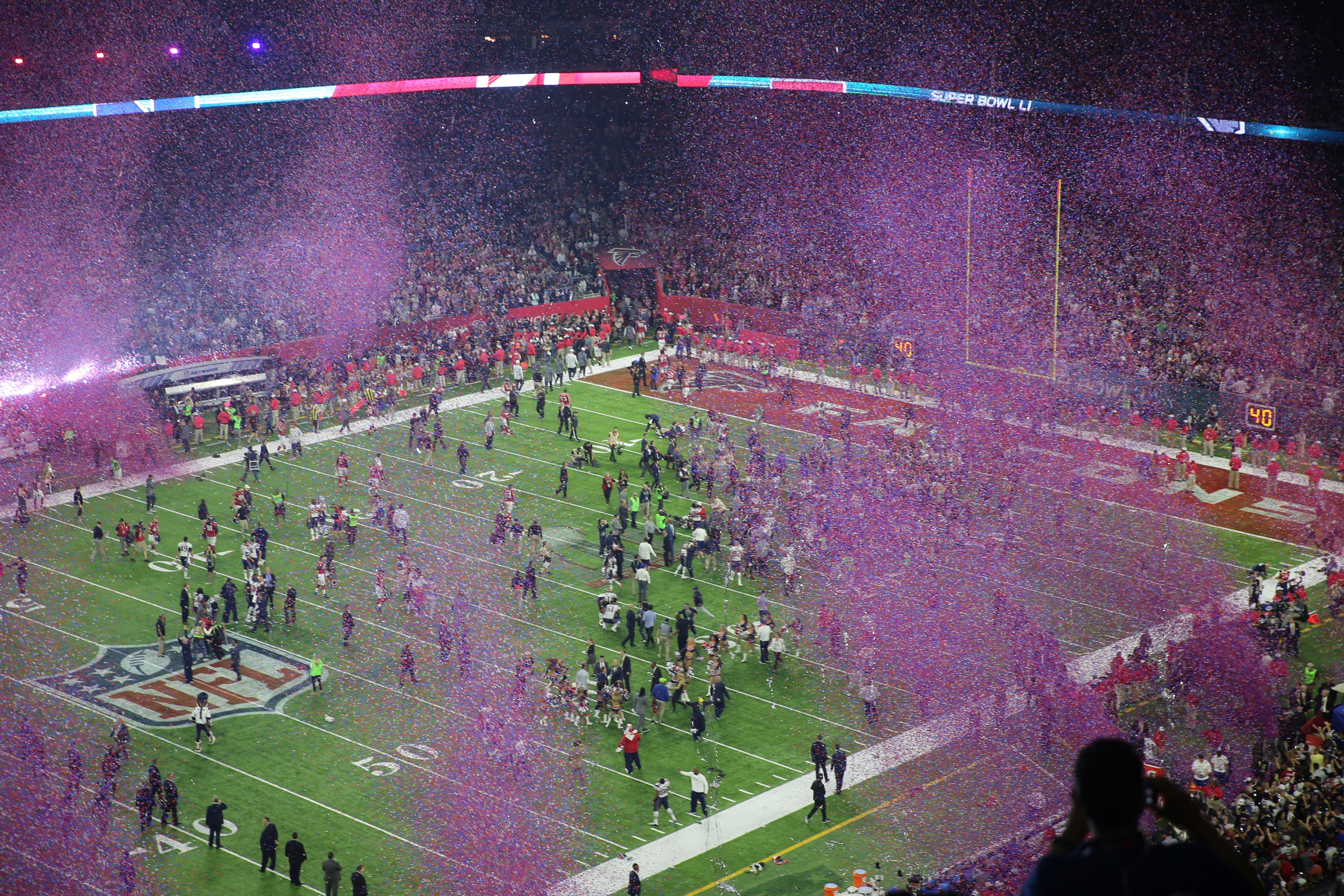 Confetti rains down on the stadium after the New England Patriots defeat the Atlanta Falcons in Super Bowl 51.